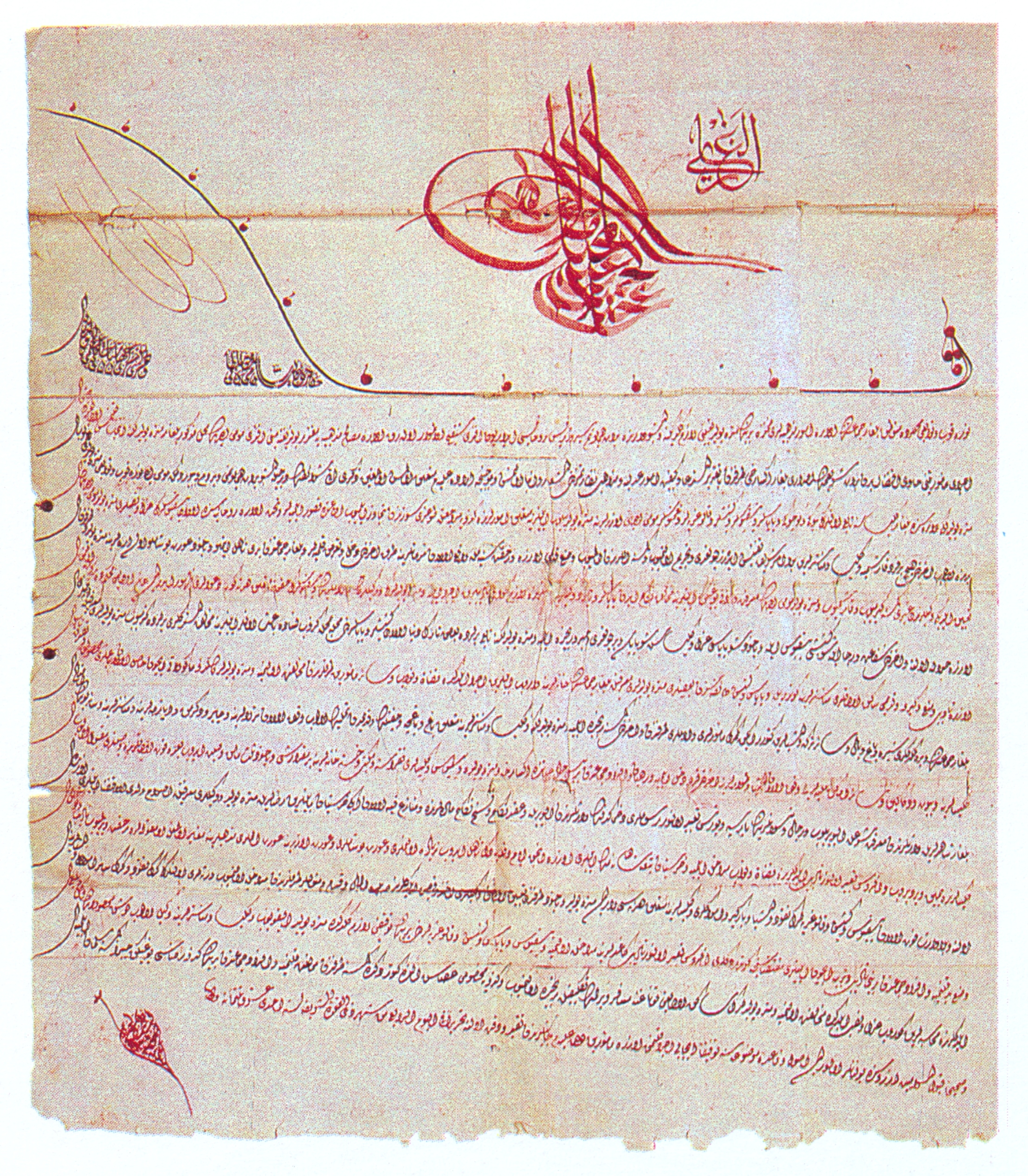 Ordinance of appointment of bishop Ilarion of Nevrokop. 1894 (in Turkish)